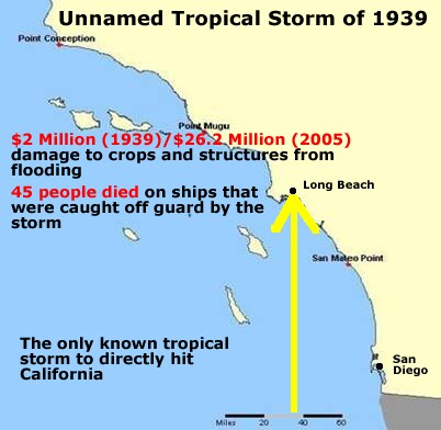 Track map of the 1939 California tropical storm